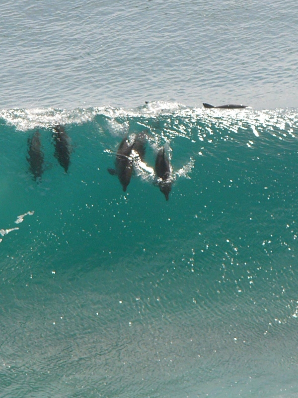 Surfacing bottlenose dolphins (Tursiops sp.).